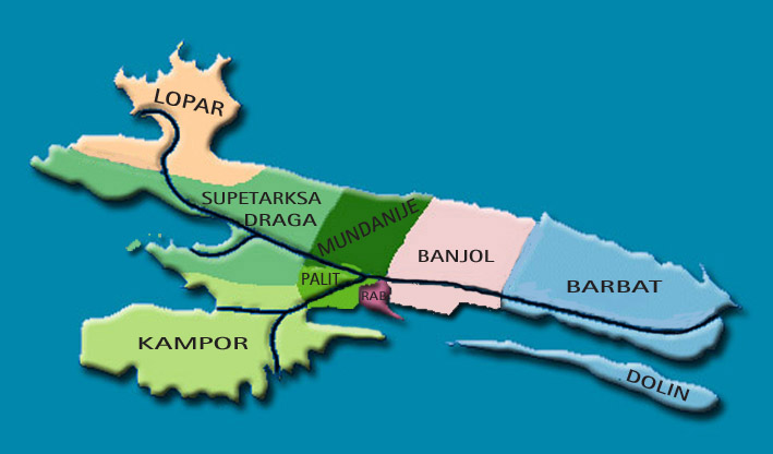 Map of Rab